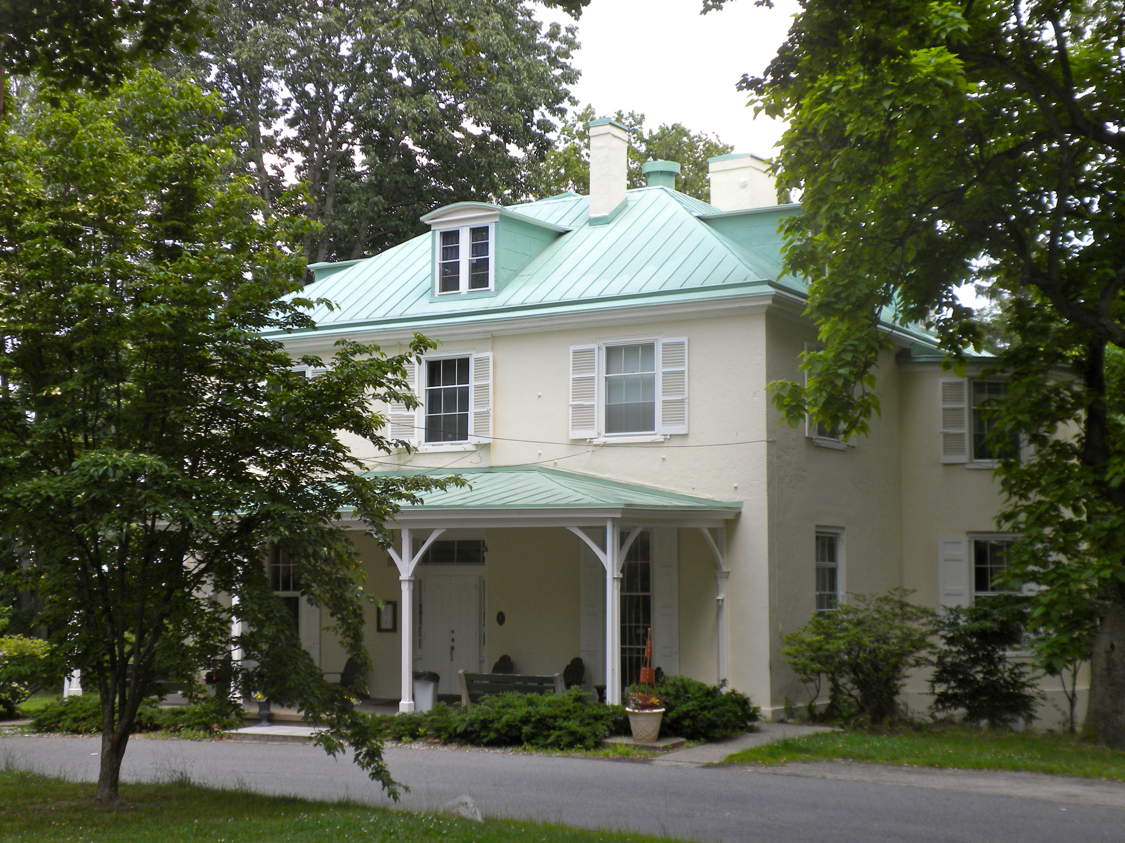 Chamounix on NRHP since April 26, 1972. In West Fairmount Park on Chamounix Drive in Fairmount Park, Philadelphia. Old mansion (1803?) used as a hostel for tourists. Beautiful setting, but there is some traffic noise.